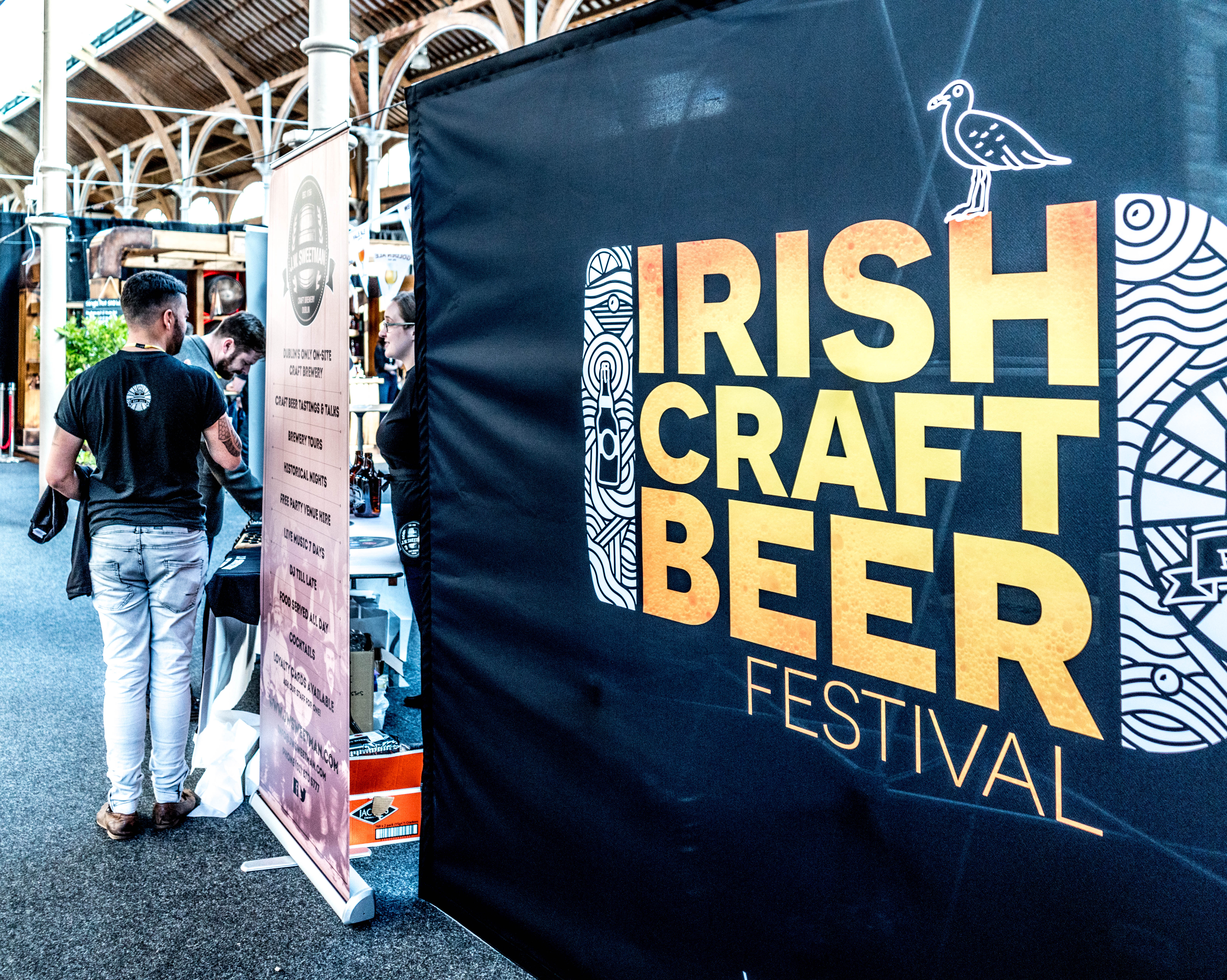 This year's line-up was made up of over 50 breweries and cider makers - who will had over 200 Irish produced beverages on offer over the weekend.